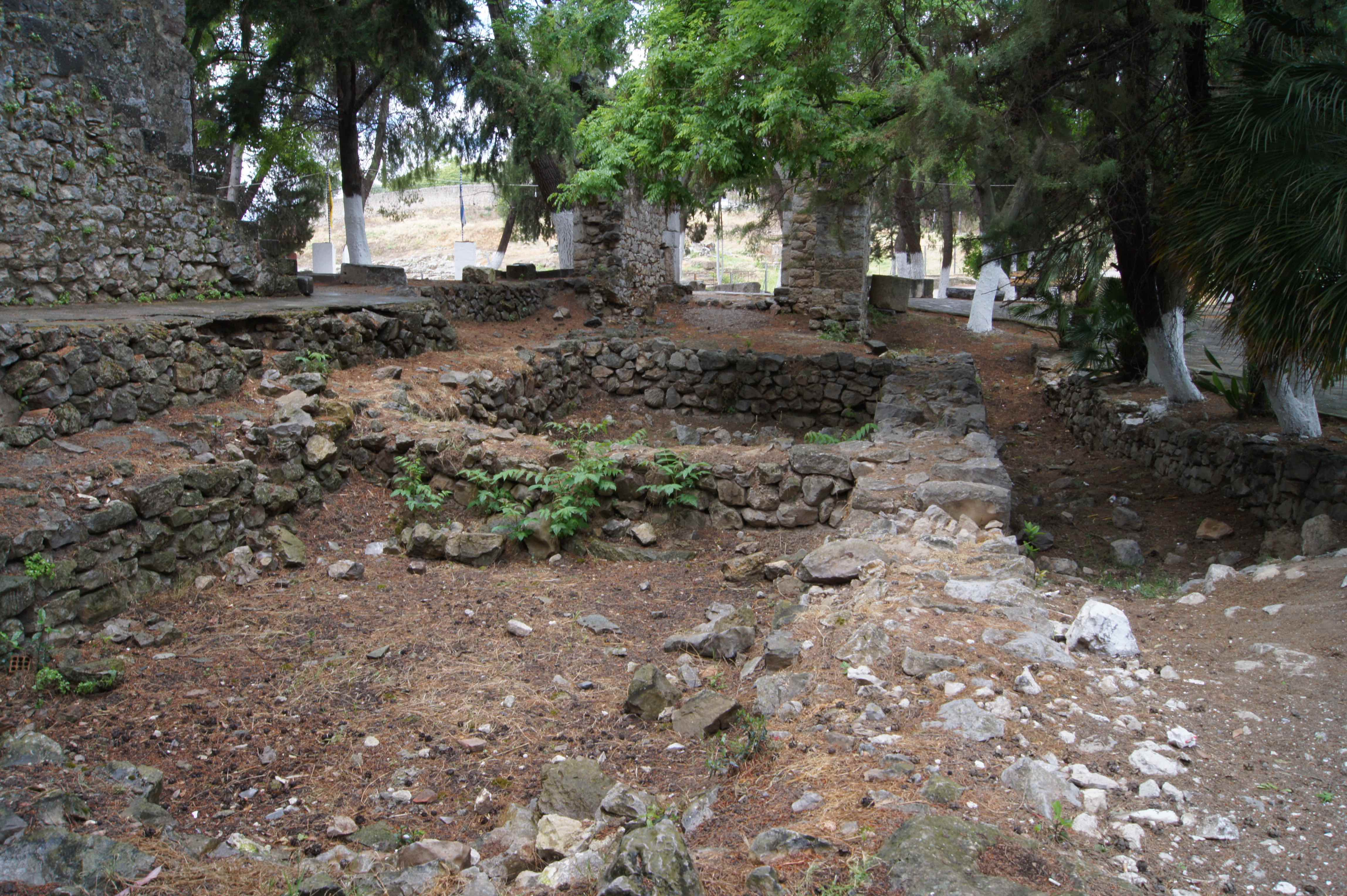 Mycenean Palace foundations